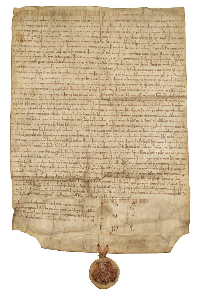 so called Barbarossaprivileg